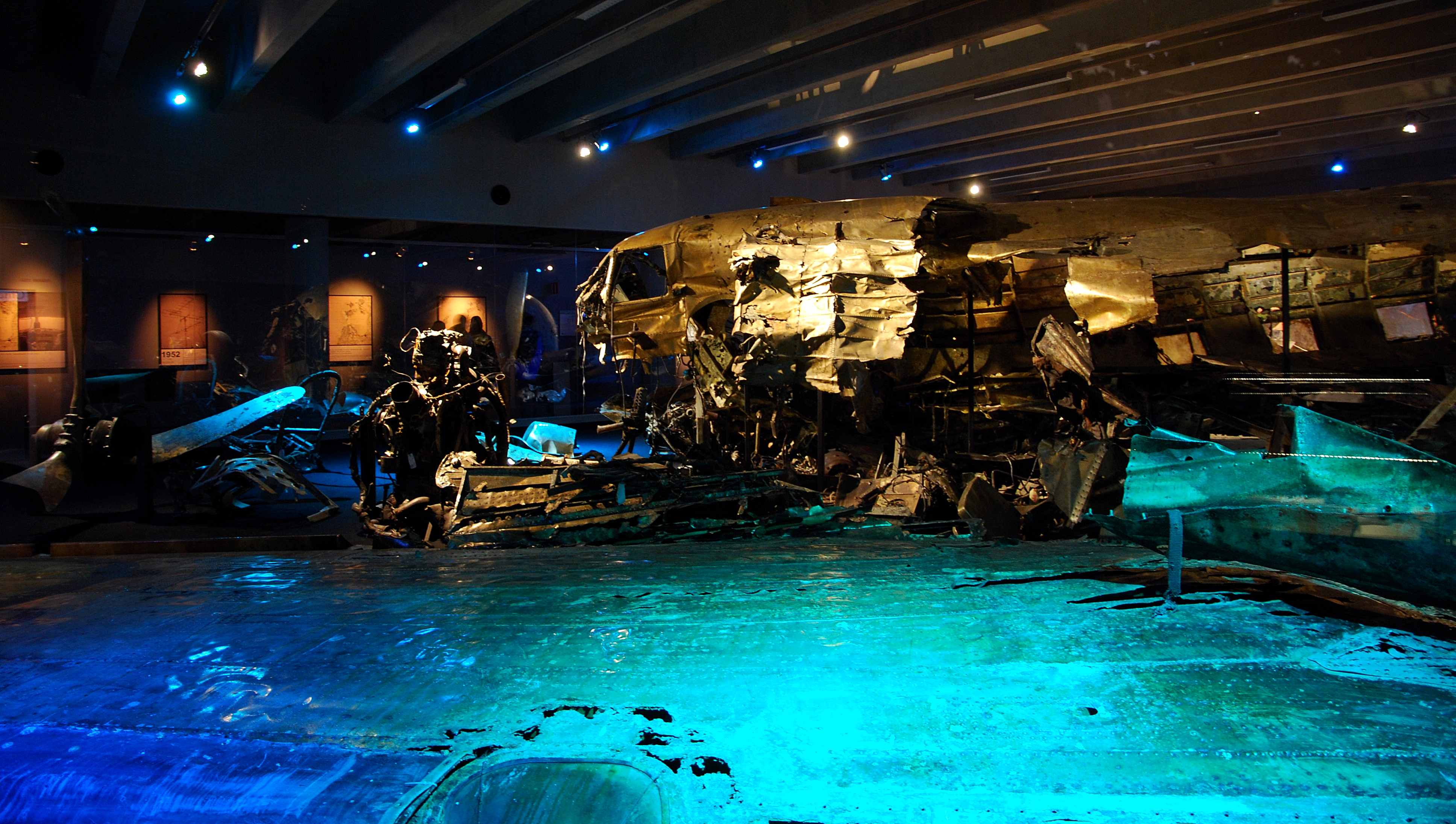 Wreckage of "the DC-3," a Tp 79 aircraft (the Swedish Air Force's designation for the C-47 Skytrain, a military transport variant of the Douglas DC-3) with serial number 79001, at the Swedish Air Force Museum in Linköping, Sweden. Shown here is the port side of the aircraft. The port wing lies alongside the aircraft in the foreground. The unarmed aircraft was carrying a crew of three men from the Air Force and five from the National Defence Radio Establishment on a classified but lawful and routine radio and radar reconnaissance mission over Swedish and international waters when it was shot down on 1952-06-13 at 11:28 CET by a Soviet MiG-15bis fighter jet, piloted by Captain Grigory Osinsky from Tukums air base in Soviet-occupied Latvia under orders from Colonel Fyodor Shinkarenko. A Catalina (Tp 47) search and rescue aircraft sent to look for the DC-3 was also shot down over international waters by Soviet aircraft three days later. No survivors from the DC-3 were found. The Soviet Union officially denied involvement until its dissolution in 1991. The events are known as the Catalina affair. The DC-3 wreckage was found on 2003-06-10 at a depth of 125 meters. The fuselage was salvaged on 2004-03-19 and taken to Muskö naval base for examination and preservation. The remains of four crewmen were identified. The wreckage was moved to the Swedish Air Force Museum on 2009-05-13.